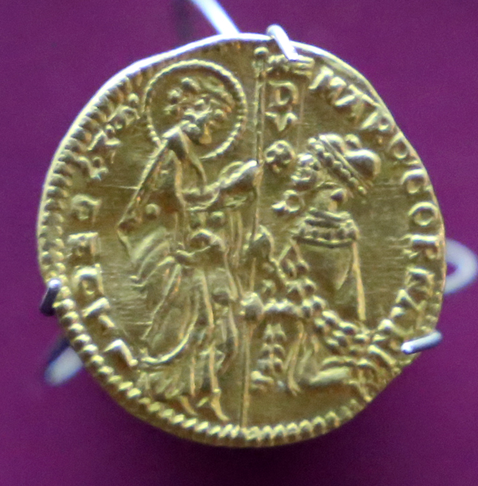 Coins in the Museo archeologico nazionale d'Abruzzo